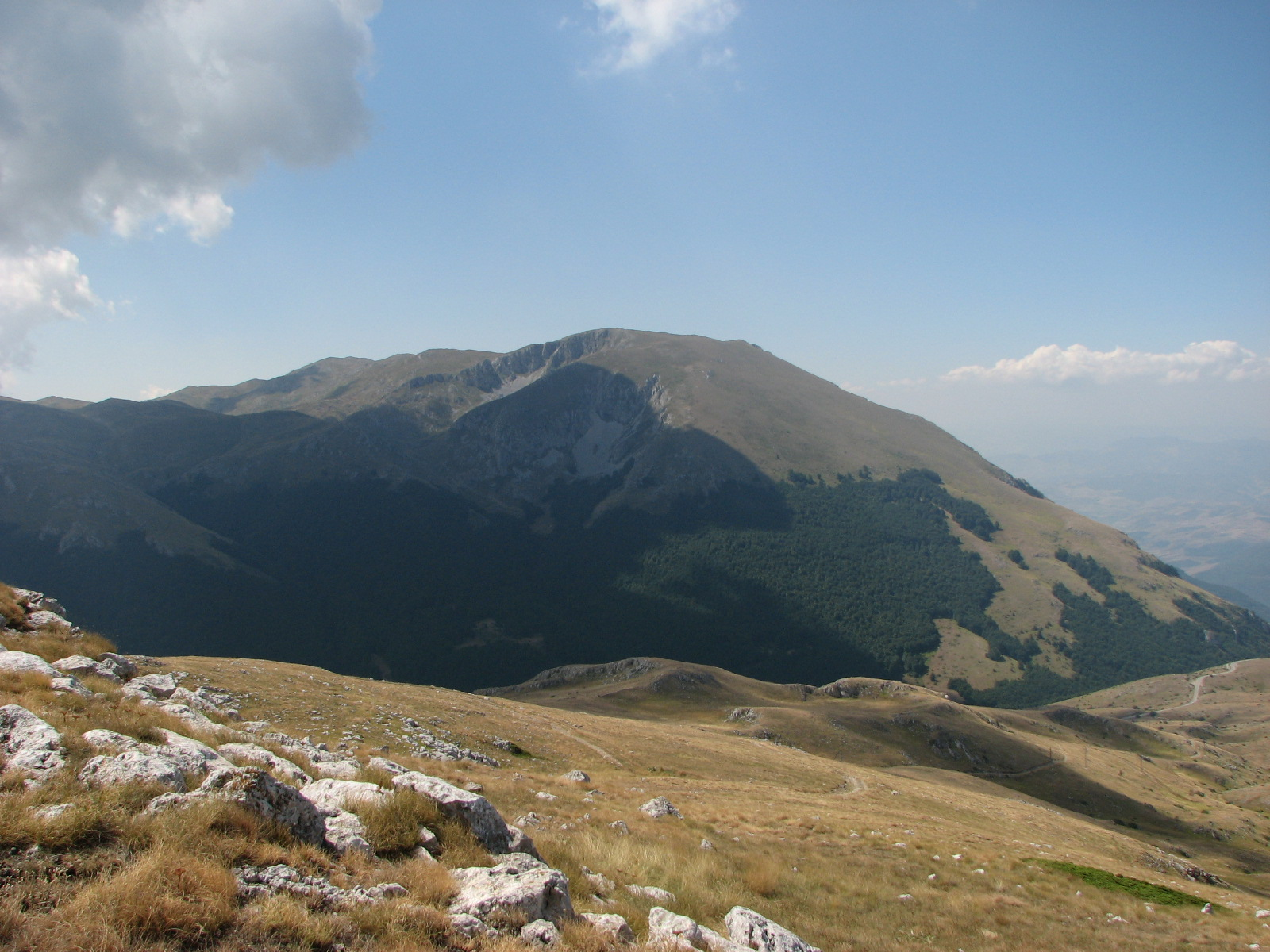 Magaro, highest peak on Galicica Mountain (2255 m)